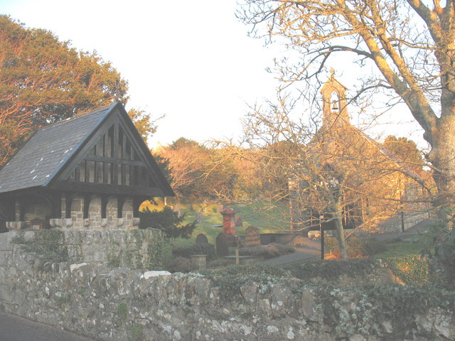 Eglwys Sant Cian. Saint Cian's Church, Llangian